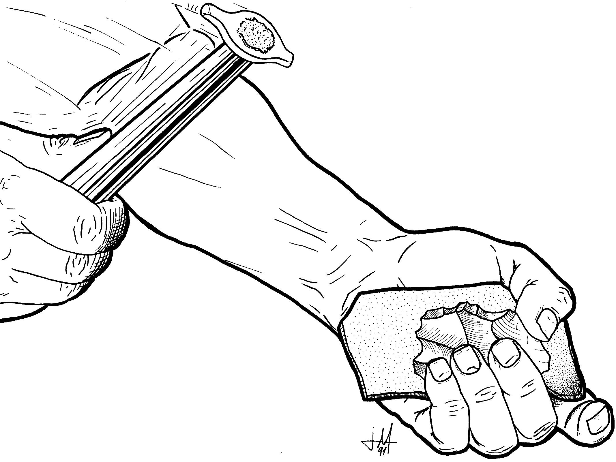 Briquero (detail): kraftsman from Cantalejo (Segovia, Spain), knapping the flint for the threshing-boards